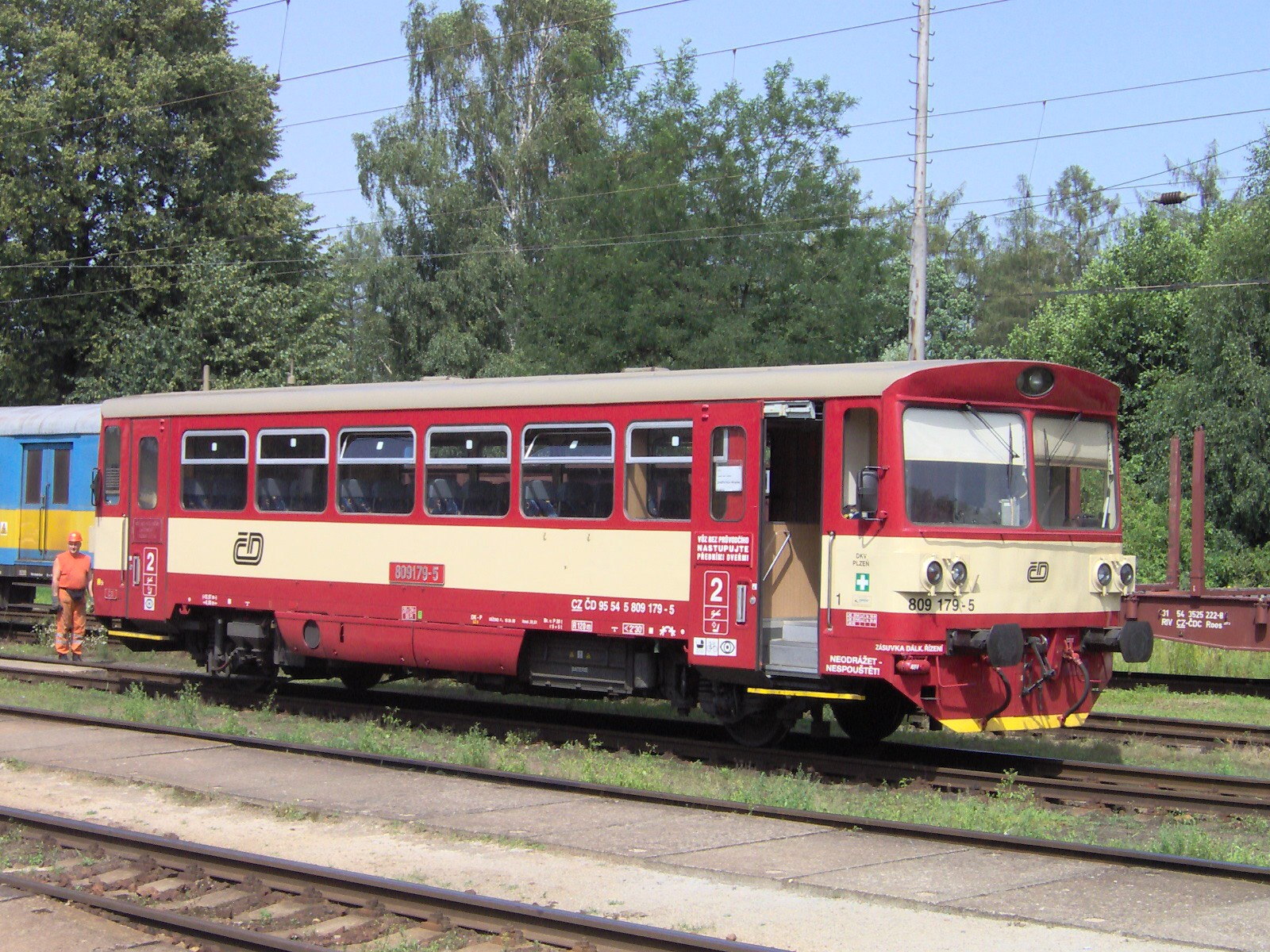 Diesel multiple unit 809.179, Jindřichův Hradec, Czech Republic